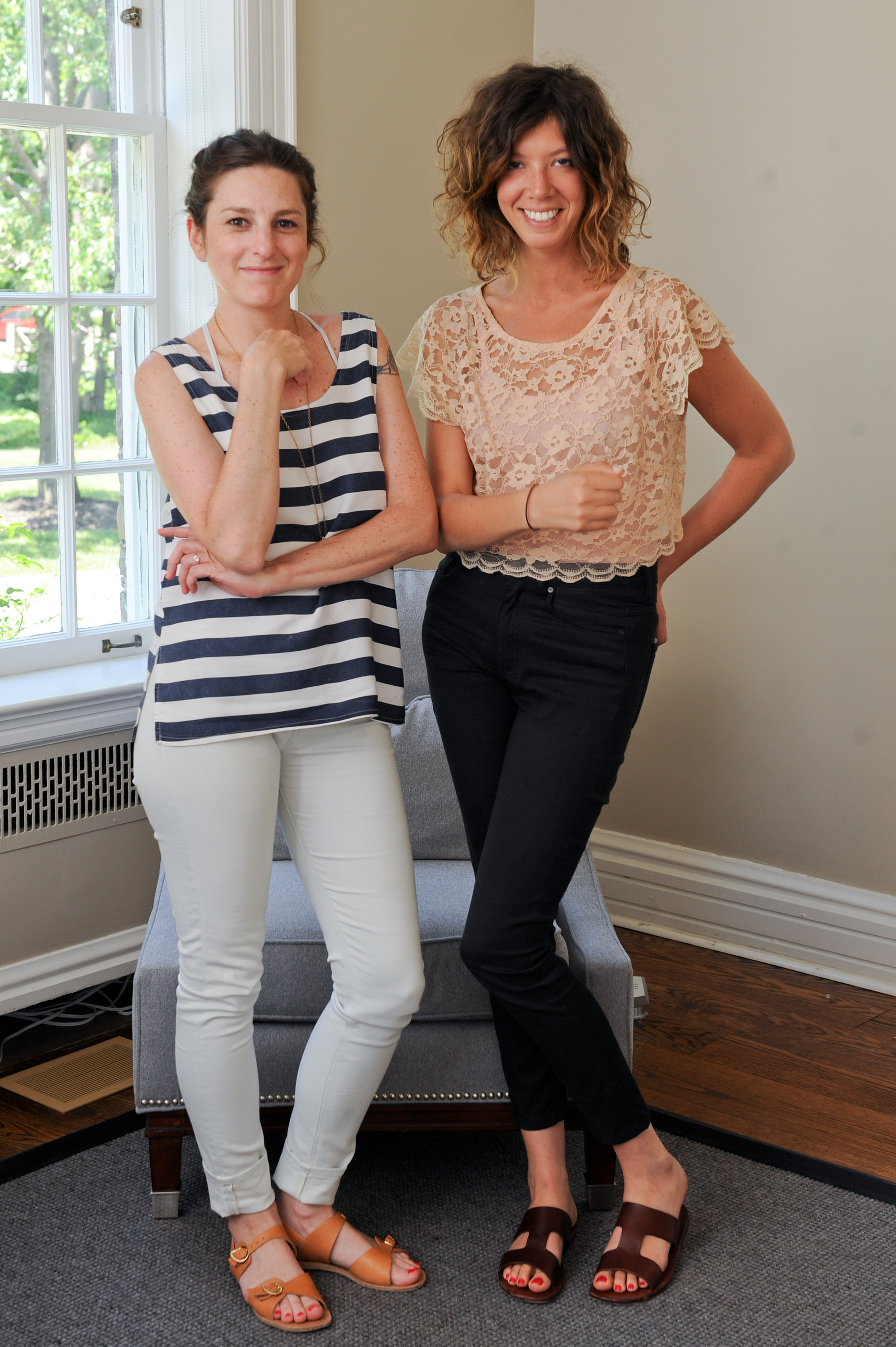 Gillian Robespierre and Elisabeth Holm visit CFC for a Master Class. Photos by: Ernesto Di Stefano